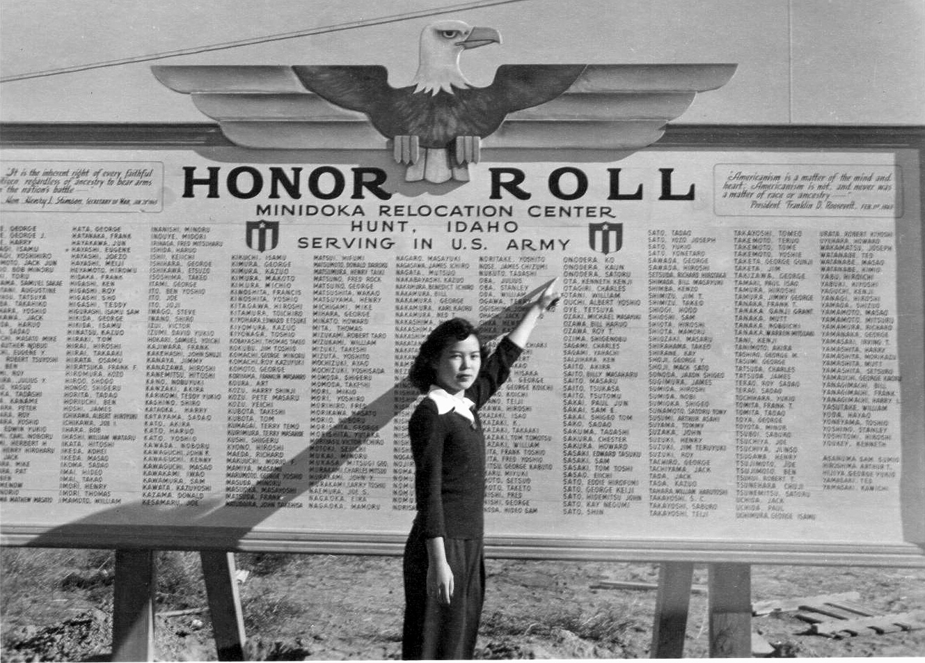 Minidoka War Relocation Camp, Idaho, USA, a internment camp of the War Relocaton Authority in World War Two. The internees created this "honor roll" to name those former internees who volunteered for the US army and fought for their new country. original caption: Fumi Onodera, 20, proudly points at the names of her 3 brothers, Ko, Kaun, 24; and Satoru, 22, on the Honor Roll of Japanese Americans serving in the U. S. Army from the Minidoka Relocation Center, Hunt, Idaho. The 3 brothers are in training in a combat team at Camp Shelby, Mississippi, with other Americans of Japanese parentage. Some have already seen action in Italy. The Onodera brothers are the sons of Mr. and Mrs. Toyosuke Onodera of Hunt. He was formerly a tailor in Seattle, Washington. The Hunt Honor Roll numbers 416 now and the list is still growing. More than half volunteered since Pearl Harbor. 10/14/43"